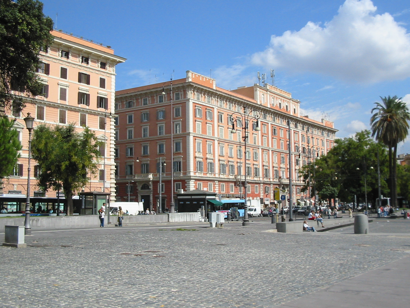 Piazza Risorgimento, a square in the rione